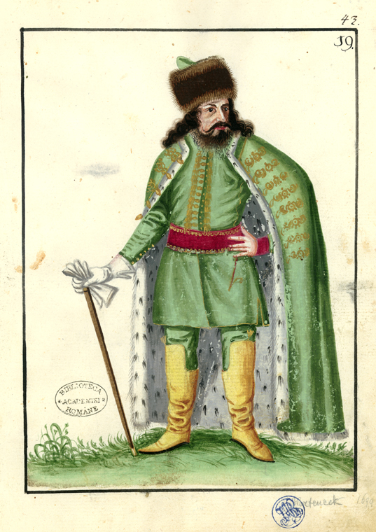 From Trachten-Kabinett von Siebenbürgen album. Drawn in 1729, based on the 1692 watercolours of an artist from Graz Given to the Romanian Academy by Baron Ludovic Czekelius of Rosenfeld. Johann Sachs von Harteneck sau Johann Zabanius